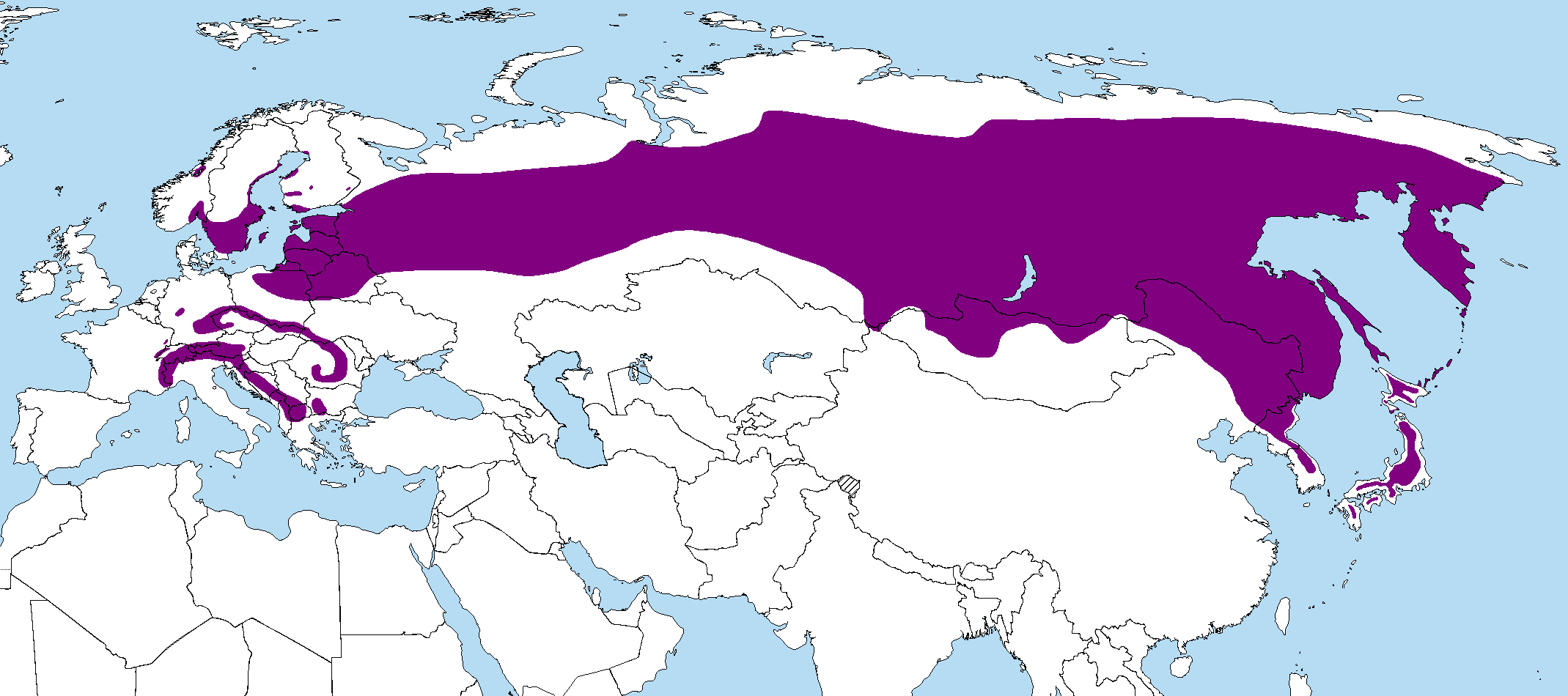 Map of distribution of Nucifraga caryocatactes and Nucifraga multipunctata. Nucifraga caryocatactes caryocatactes group (Nucifraga caryocatactes sensu stricto) Nucifraga caryocatactes hemispila group (syn. Nucifraga hemispila) Nucifraga multipunctata Sources: Critchfield, W. B. & Little, E. L. (1966). Geographic Distribution of the Pines of the World. USDA Forest Service Misc. Publ. 991. del Hoyo, J. et al., eds. (2009). Handbook of the Birds of the World 14: 611. ISBN 978-84-96553-50-7. MacKinnon, J., & Phillipps, K. (2000). A Field Guide to the Birds of China. Oxford University Press ISBN 0-19-854940-7. Snow, D. W. & Perrins, C. M. (1998). The Birds of the Western Palearctic Concise Edition. OUP ISBN 0-19-854099-X. Svensson, L., Mullarney, K., & Zetterström, D. (2009). Collins Bird Guide, ed. 2. Collins. ISBN 978-0-00-726814-6.